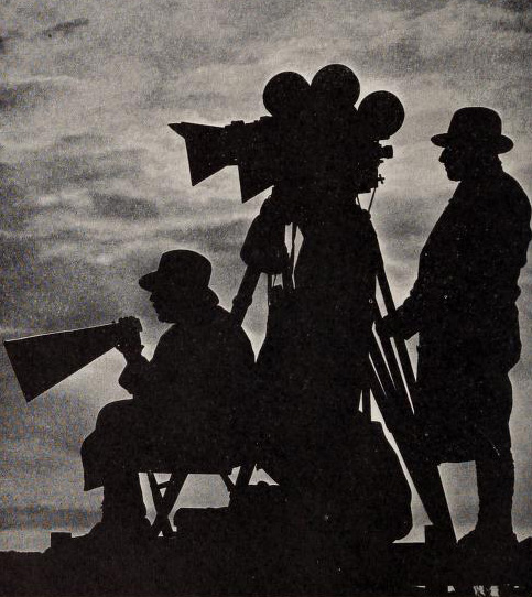 Cinematographer Robert Kurrle and director Edwin Carewe filming a dusk scene for the 1929 film Evangeline Other for an explanation of the copyright for information regarding public domain